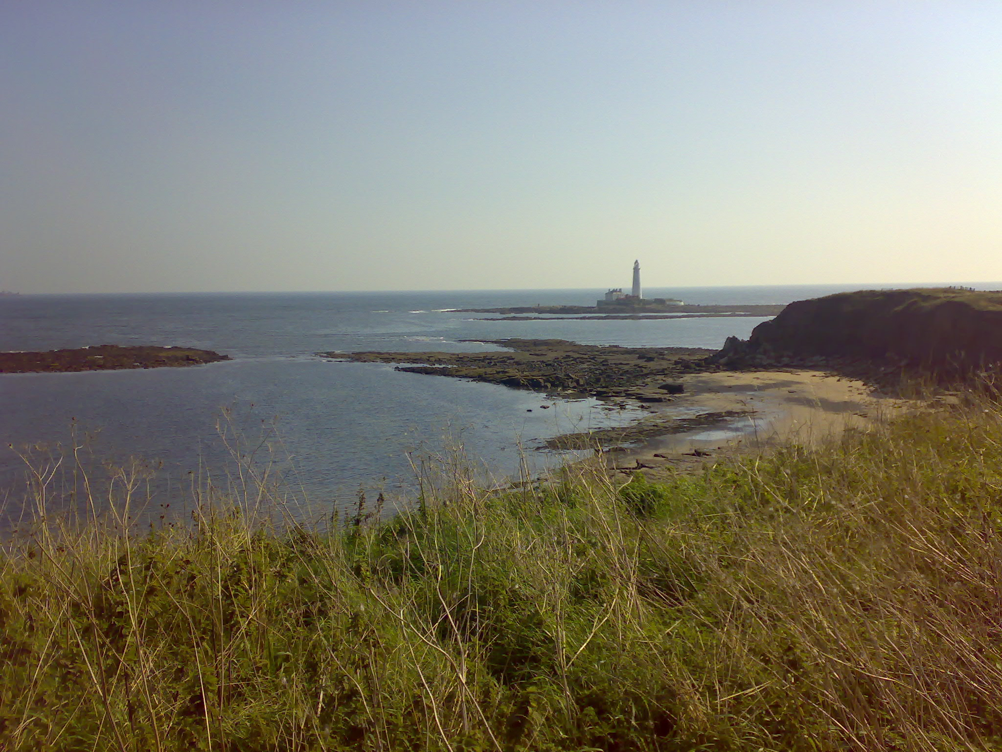 St Mary's Lighthouse on St Mary's Island as viewed from between Seaton Sluice and Whitley Bay. Photo taken 21st September 2006.